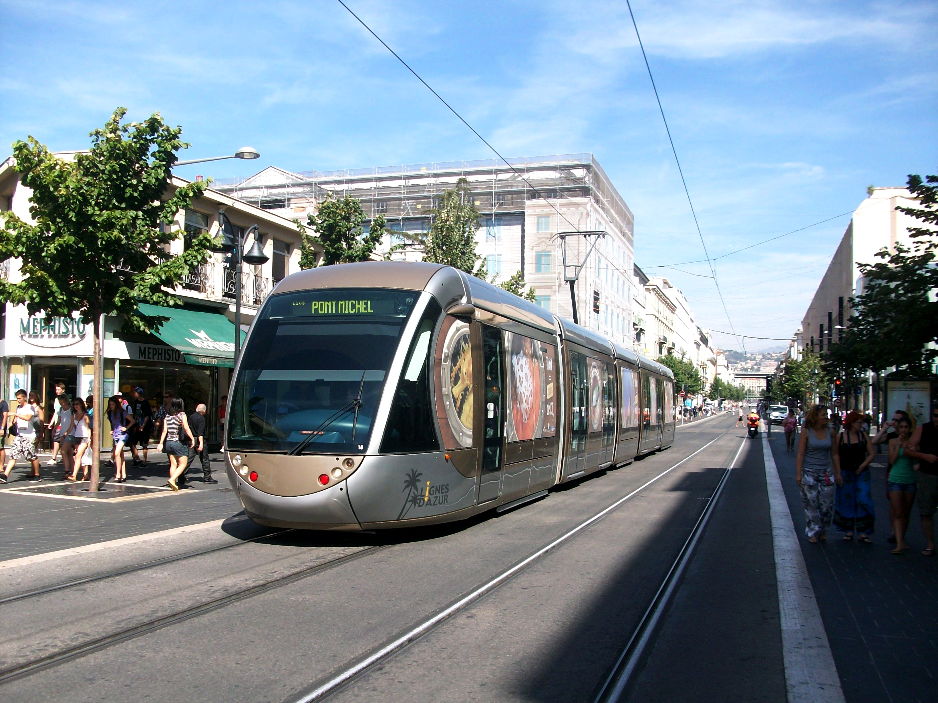 Citadis 302, Nice